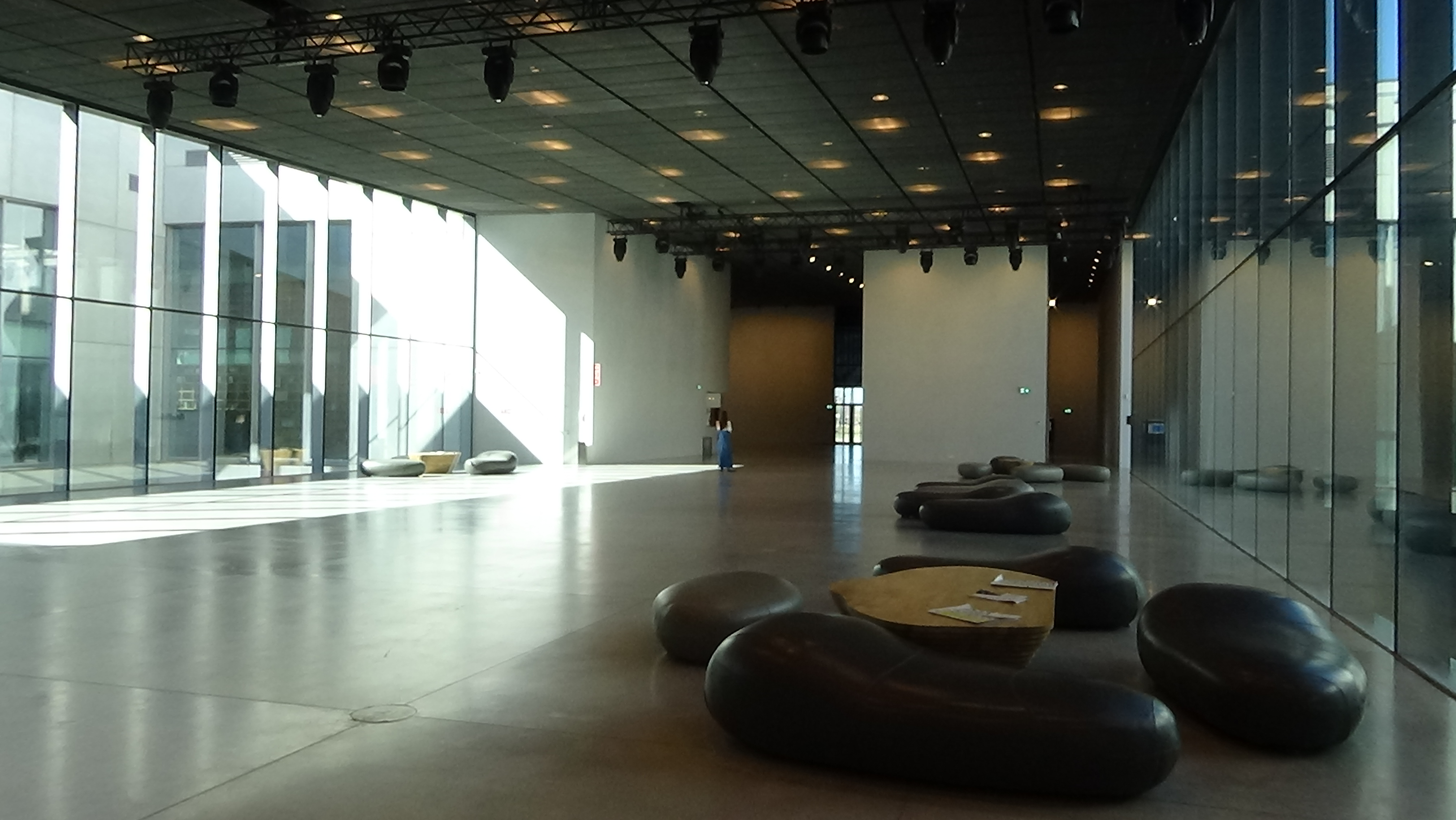 In the hall of the Estonian National Museum (Eesti Rahva Muuseum). Tartu